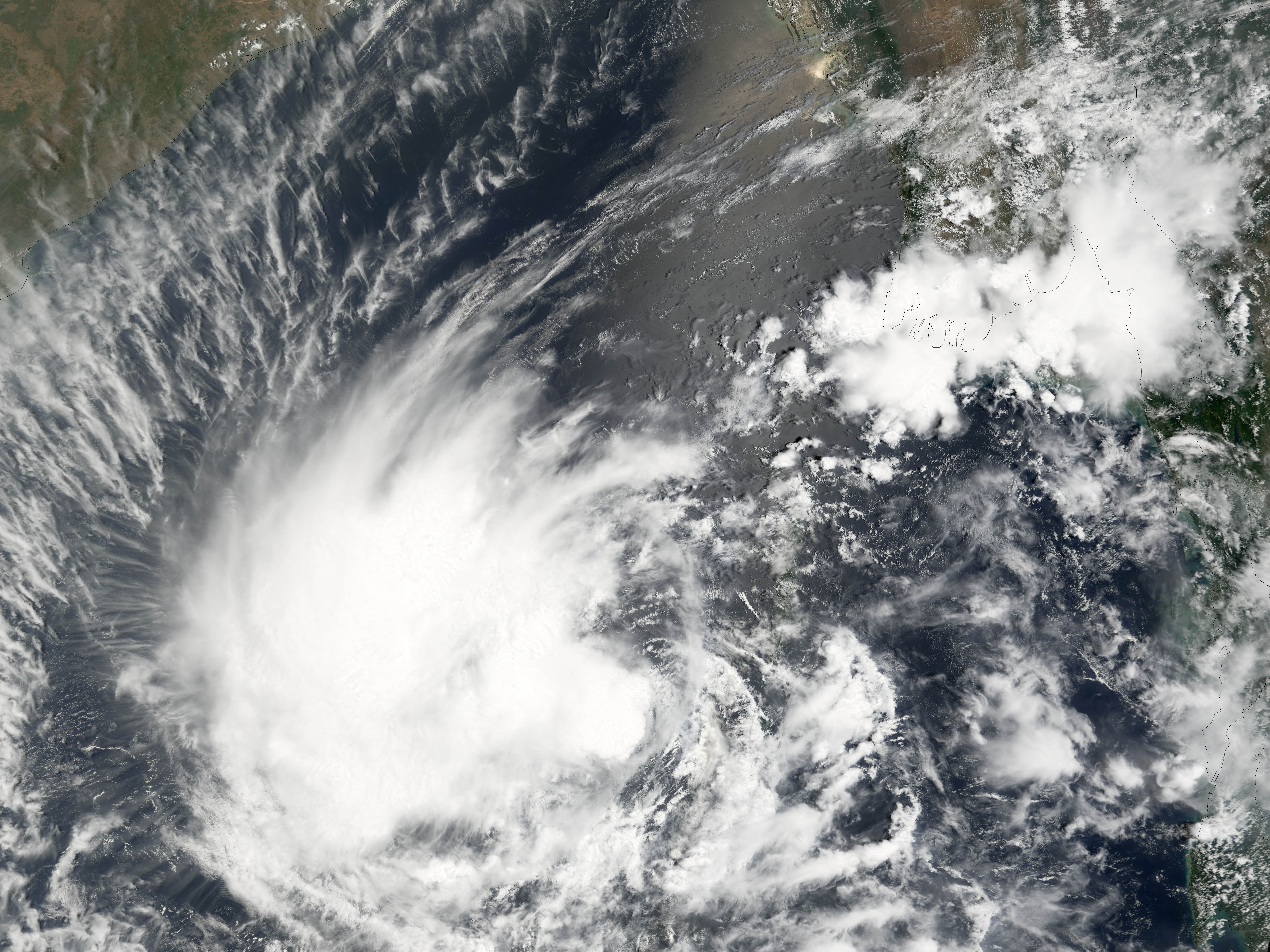 Tropical Cyclone Mala formed in the Bay of Bengal on April 24, 2006. The cyclone has been gradually building strength and size. As of April 26, it was projected to head towards Myanmar, possibly coming ashore there on or around April 29, after grazing along the Andaman Islands. It was not projected to become a particularly powerful storm before reaching the mainland. This photo-like image was acquired by the Moderate Resolution Imaging Spectroradiometer (MODIS) on the Terra satellite on April 26, 2006, at 10:35 a.m. local time (04:35 UTC). Cyclone Mala at this time had a basic rounded form, but lacked the well-developed eye, tight-wound shape, and strong winds of a powerful storm. Sustained, peak winds in the storm system were roughly 80 kilometers per hour (50 miles per hour) around the time the image was captured.